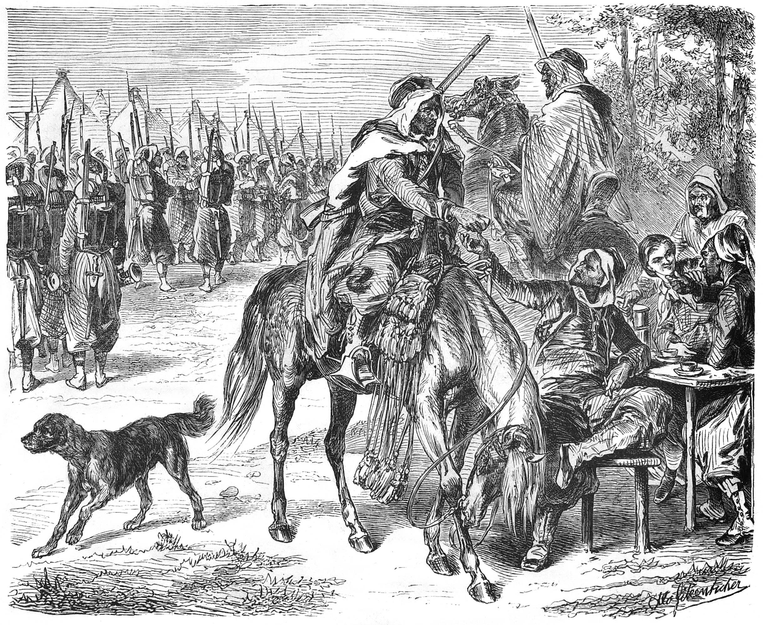 no caption